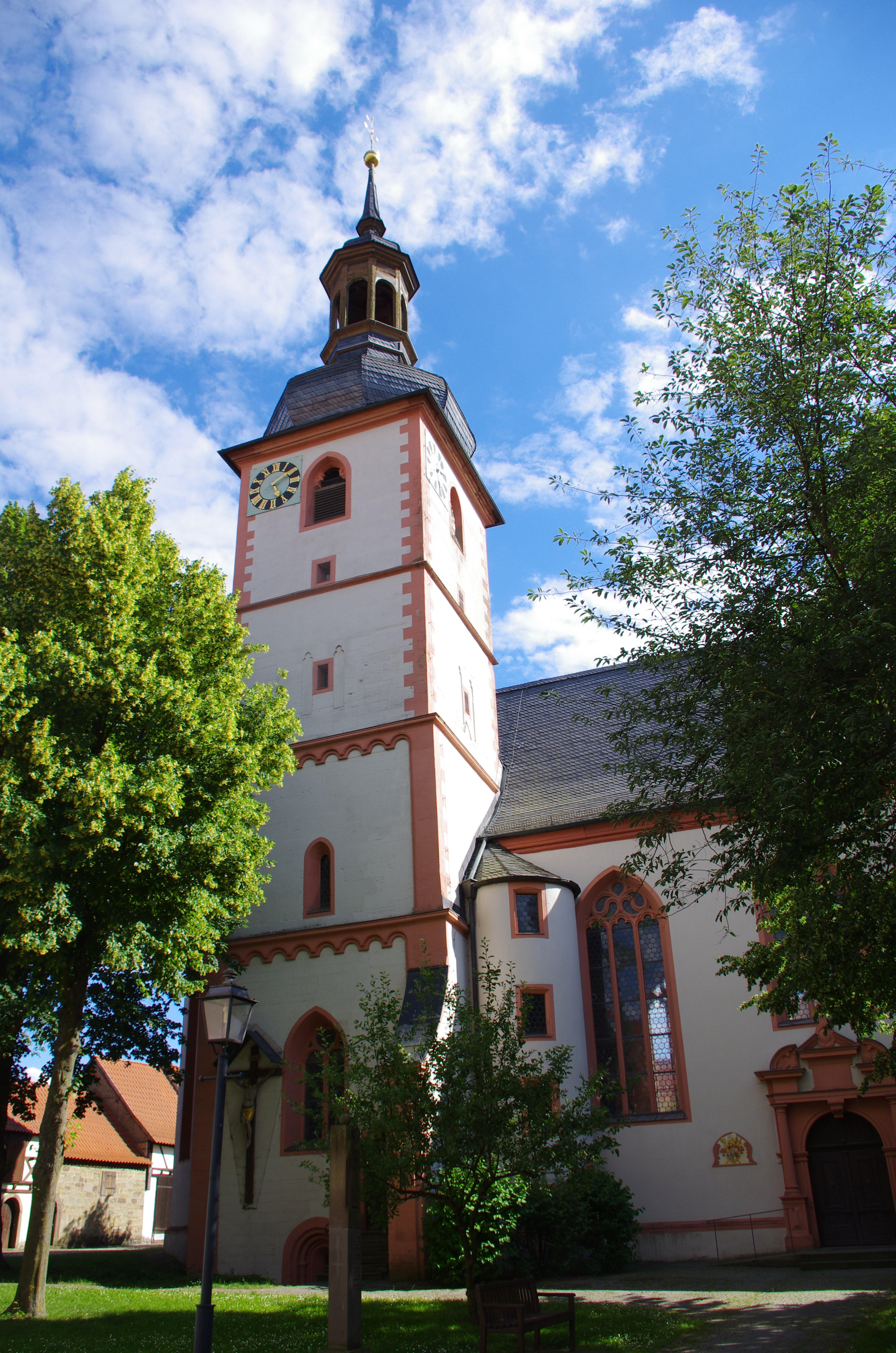 Google Maps - Google Earth